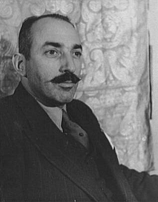 Alfred A. Knopf photo taken by Carl Van Vechten